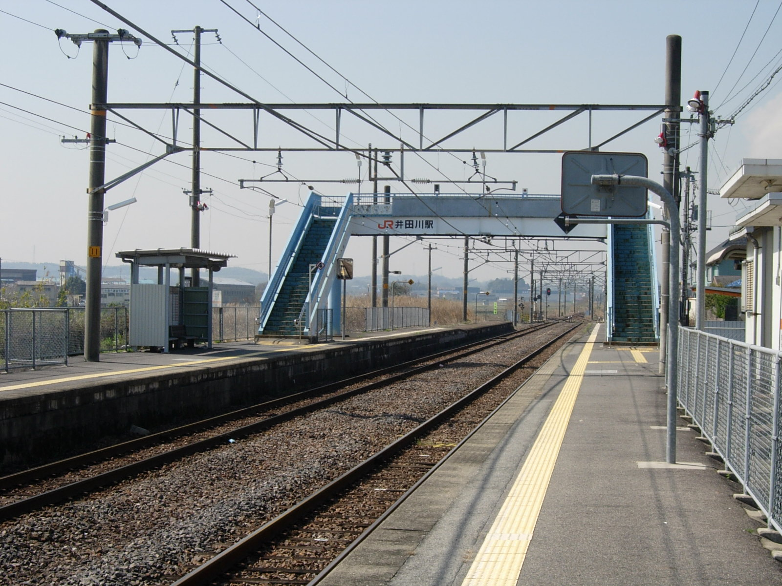 Idagawa Station